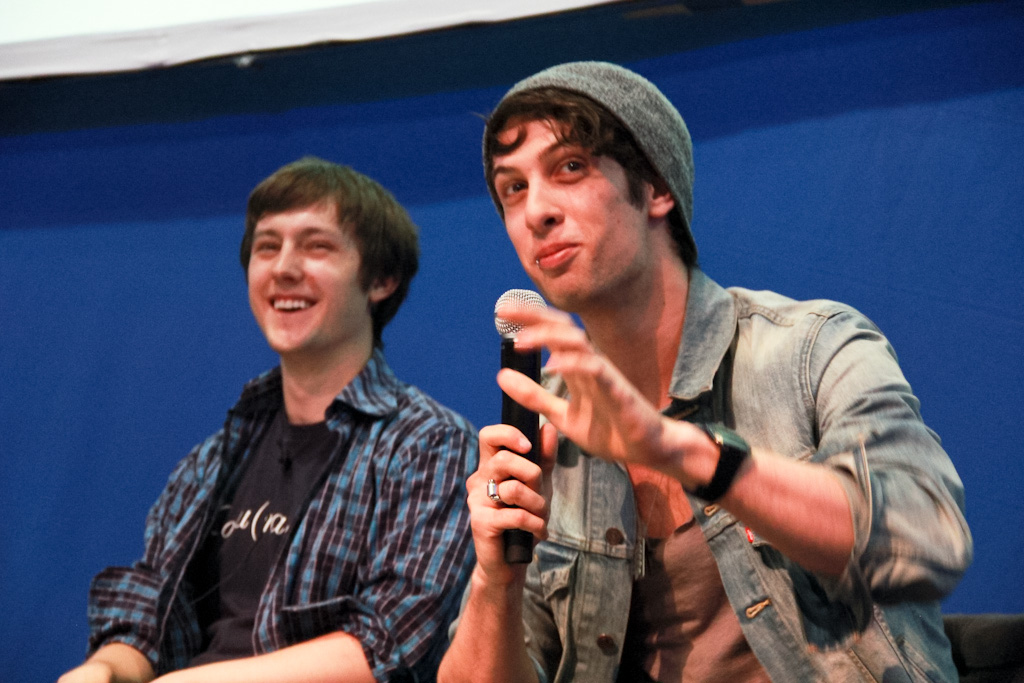 Diaspora founders Ilya Zhitomirskiy (†) and Daniel Grippi at Cultura Libre Conference, 2011